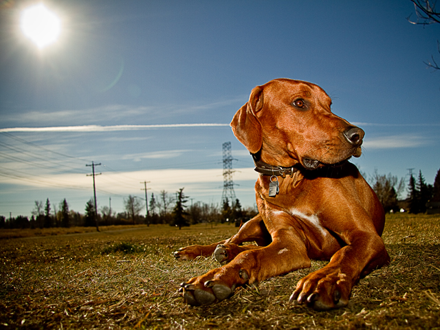 Rhodesian Ridgeback